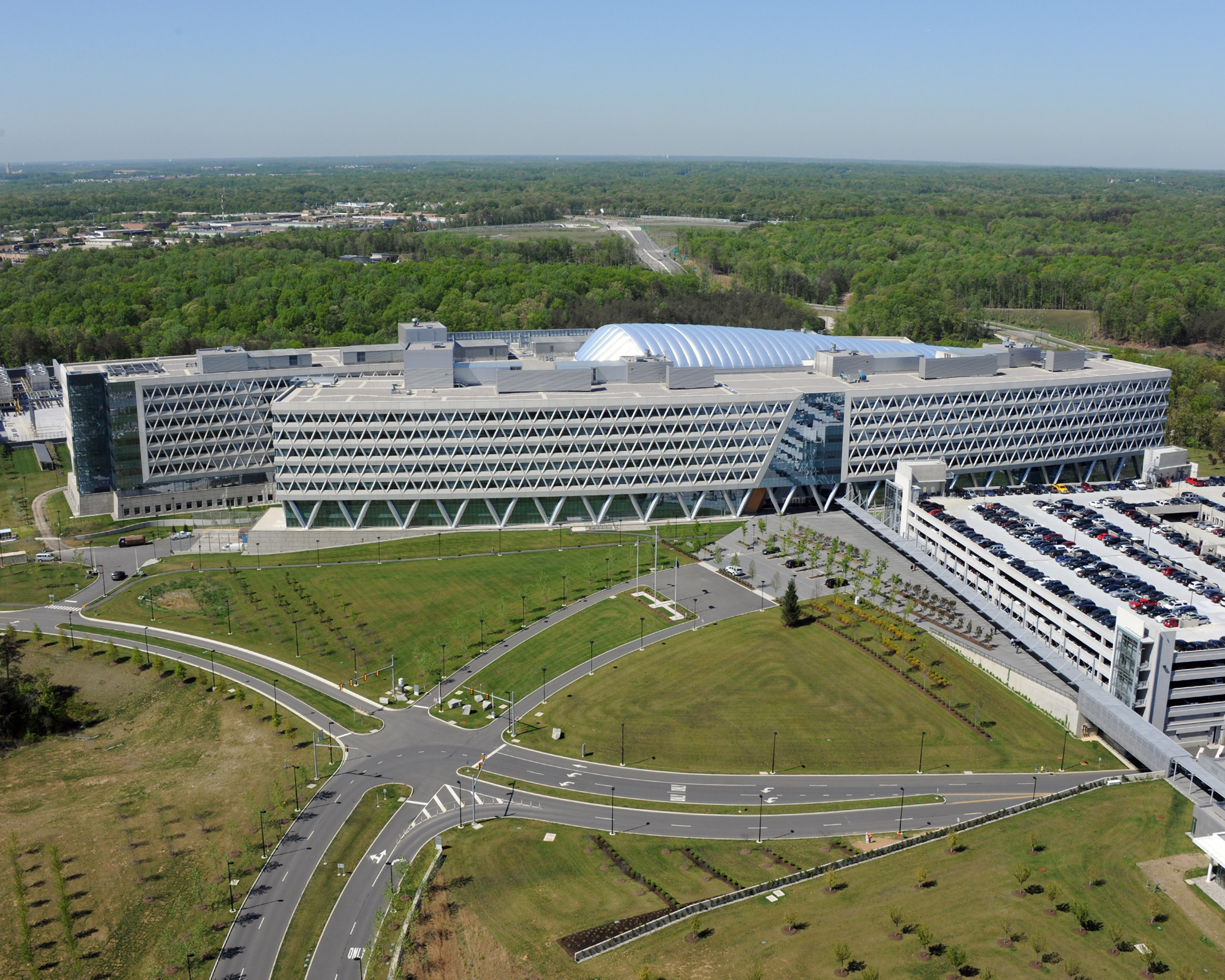 National Geospatial-Intelligence Agency East facility - exterior view